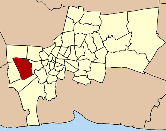 Map of Bangkok, Thailand, highlighting the district (khet) Bang Khae (บางแค)